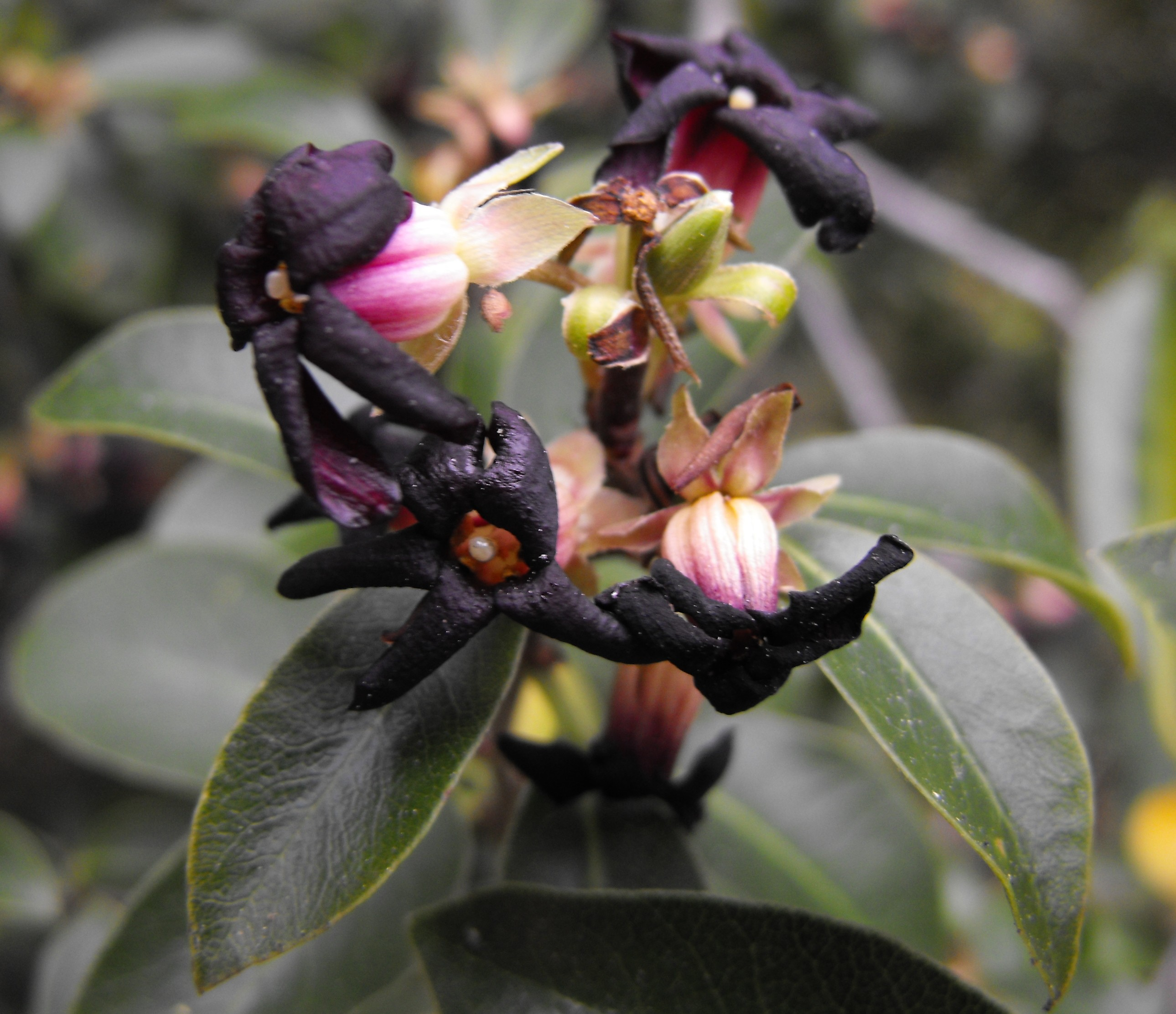 Pittosporum tenuifolium at Quail Botanical Gardens in Encinitas, California, USA. Identified by sign.